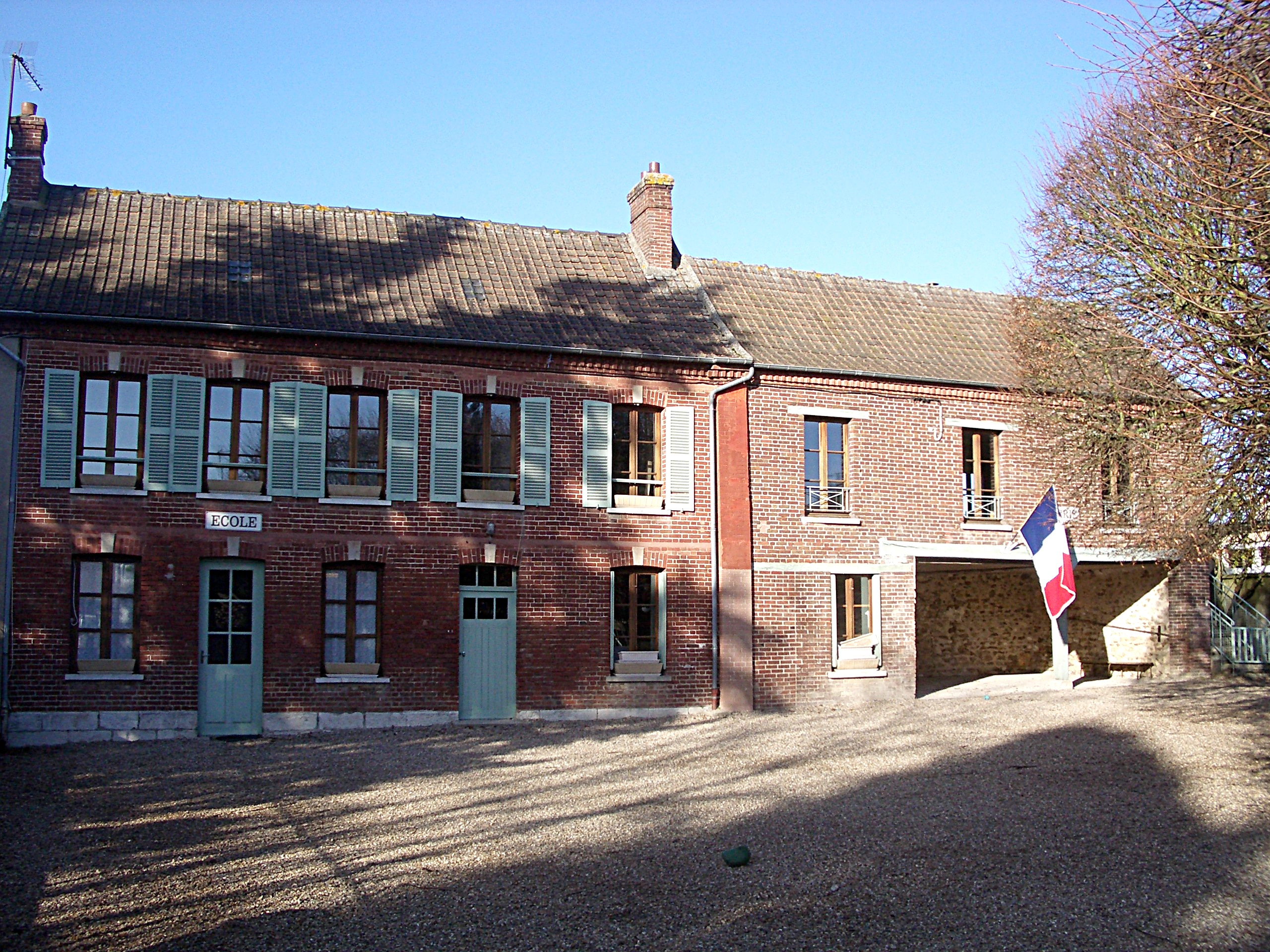 Saint Vincent des Bois (Eure) school and city hall